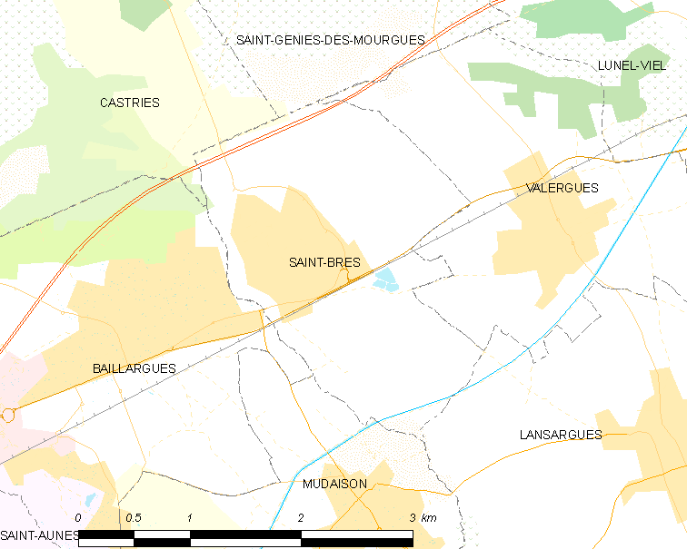 Map commune FR insee code 34244.png - Saint-Brès (Hérault)